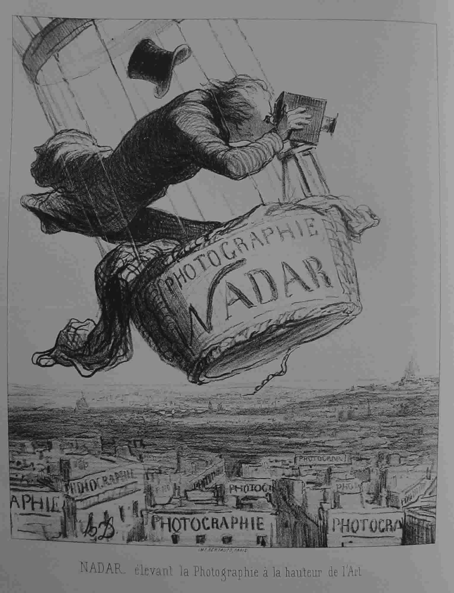 Honoré Daumier, DR 3248 copyright